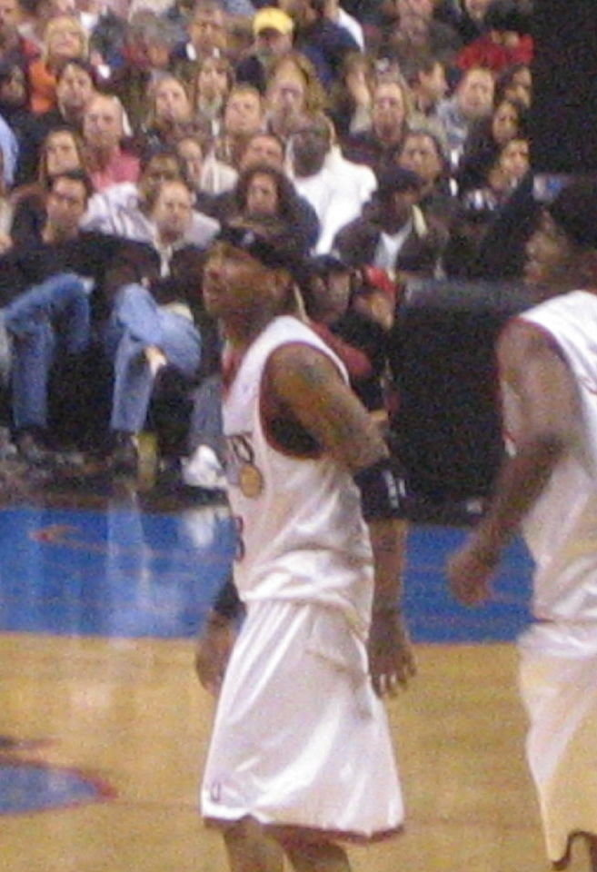 Allen Iverson on November 11, 2005 against the lakers